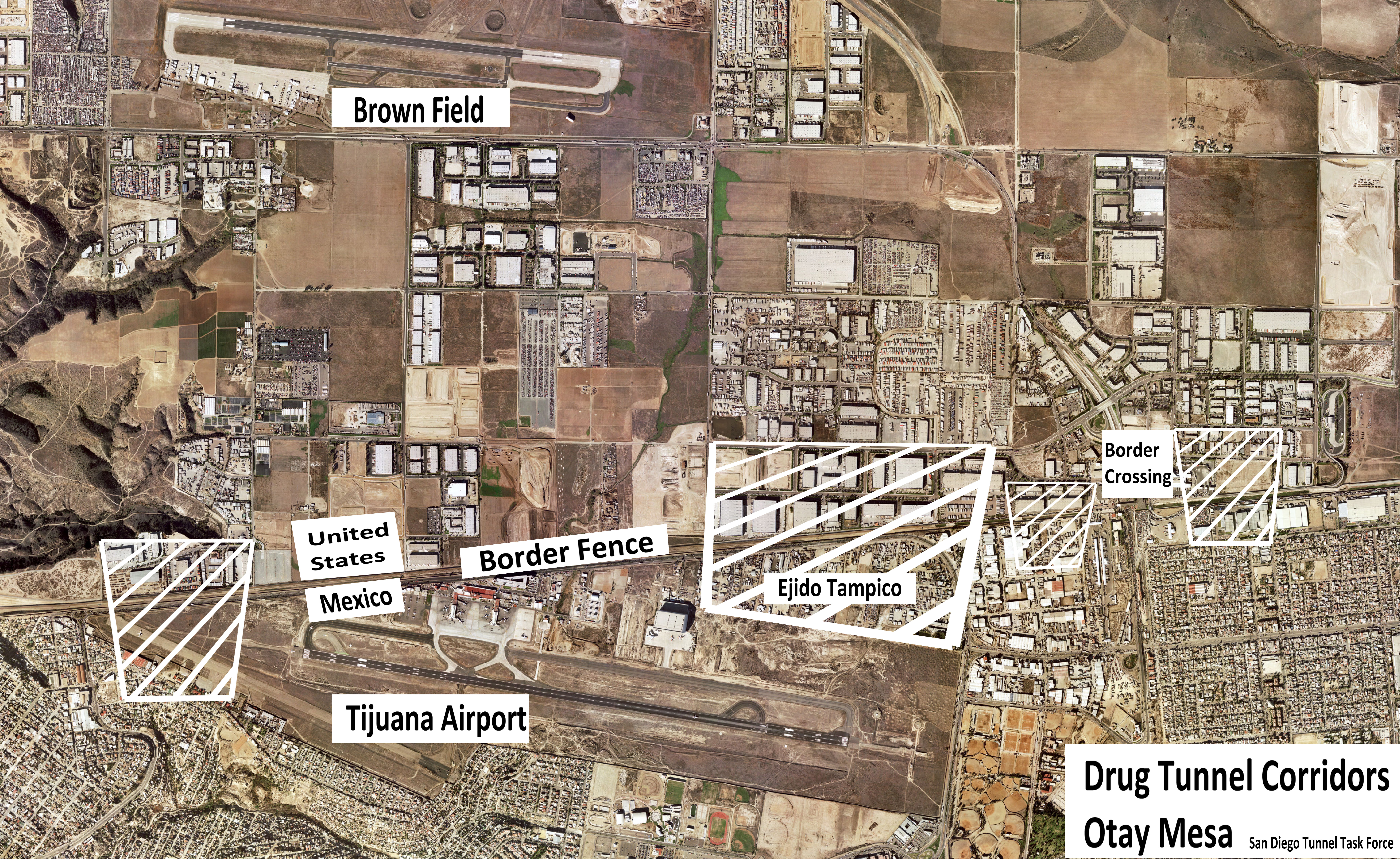 Shows drug tunnel corridors on Otay Mesa, California originating from Mexico 1993-2016